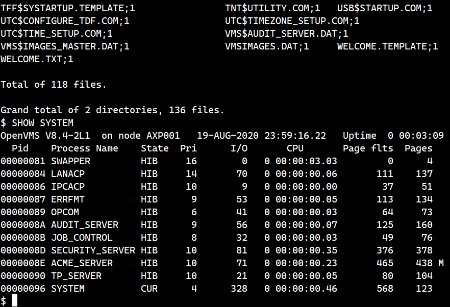 OpenVMS 8.4-2L1, showing the execution of DCL commands